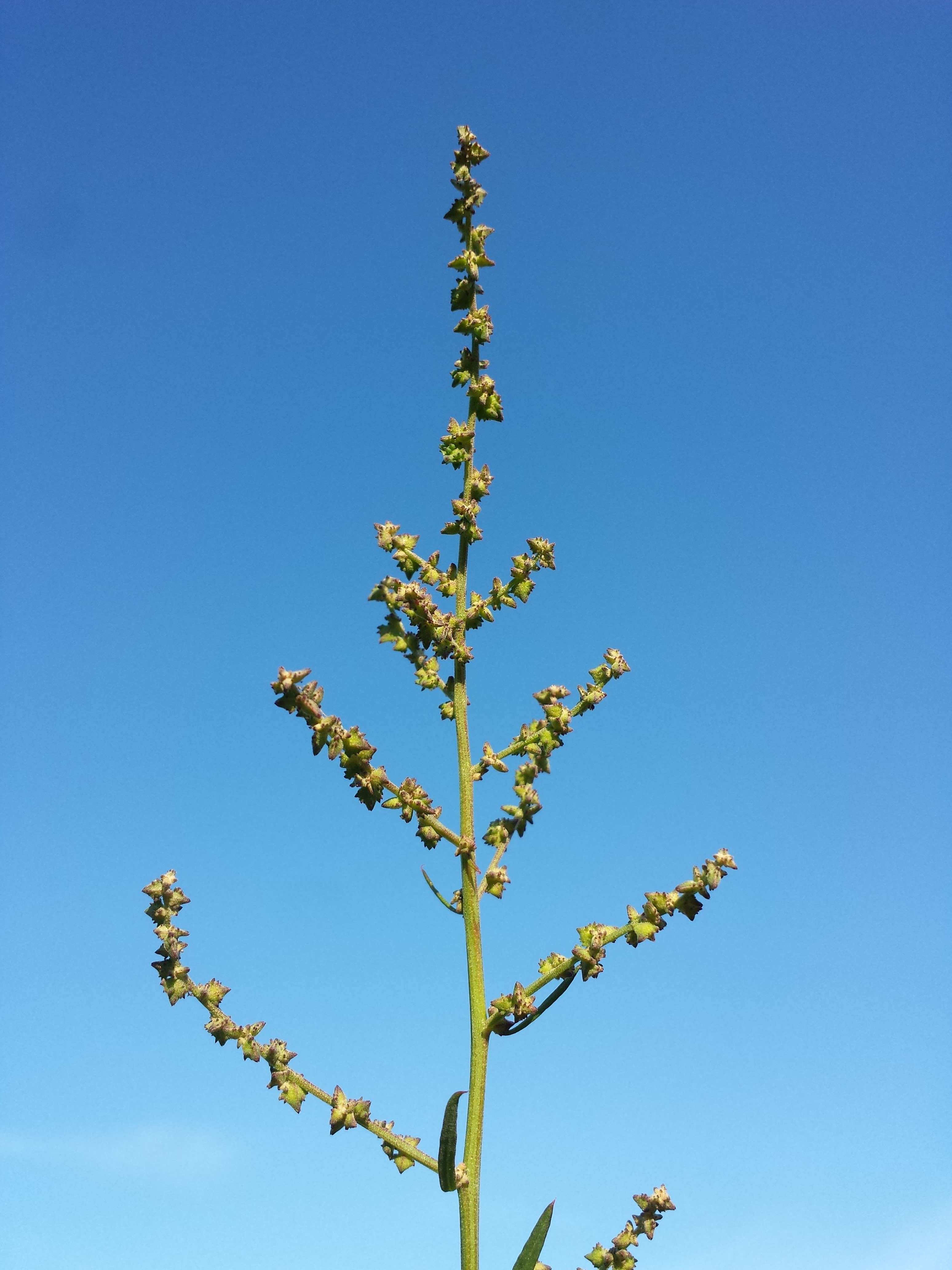 Inflorescence (individual with predominantly female flowers) Taxonym: Atriplex patula ss Fischer et al. EfÖLS 2008 ISBN 978-3-85474-187-9 Location: Schwarzlackenau, Vienna-Floridsdorf - ca. 160 m a.s.l. Habitat: ruderal area